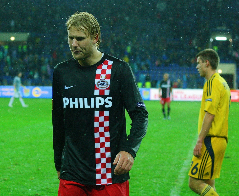 Ola Toivonen